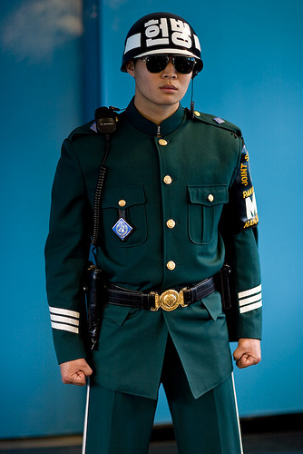 A South Korean guard blocking the entrance to North Korea in the DMZ.